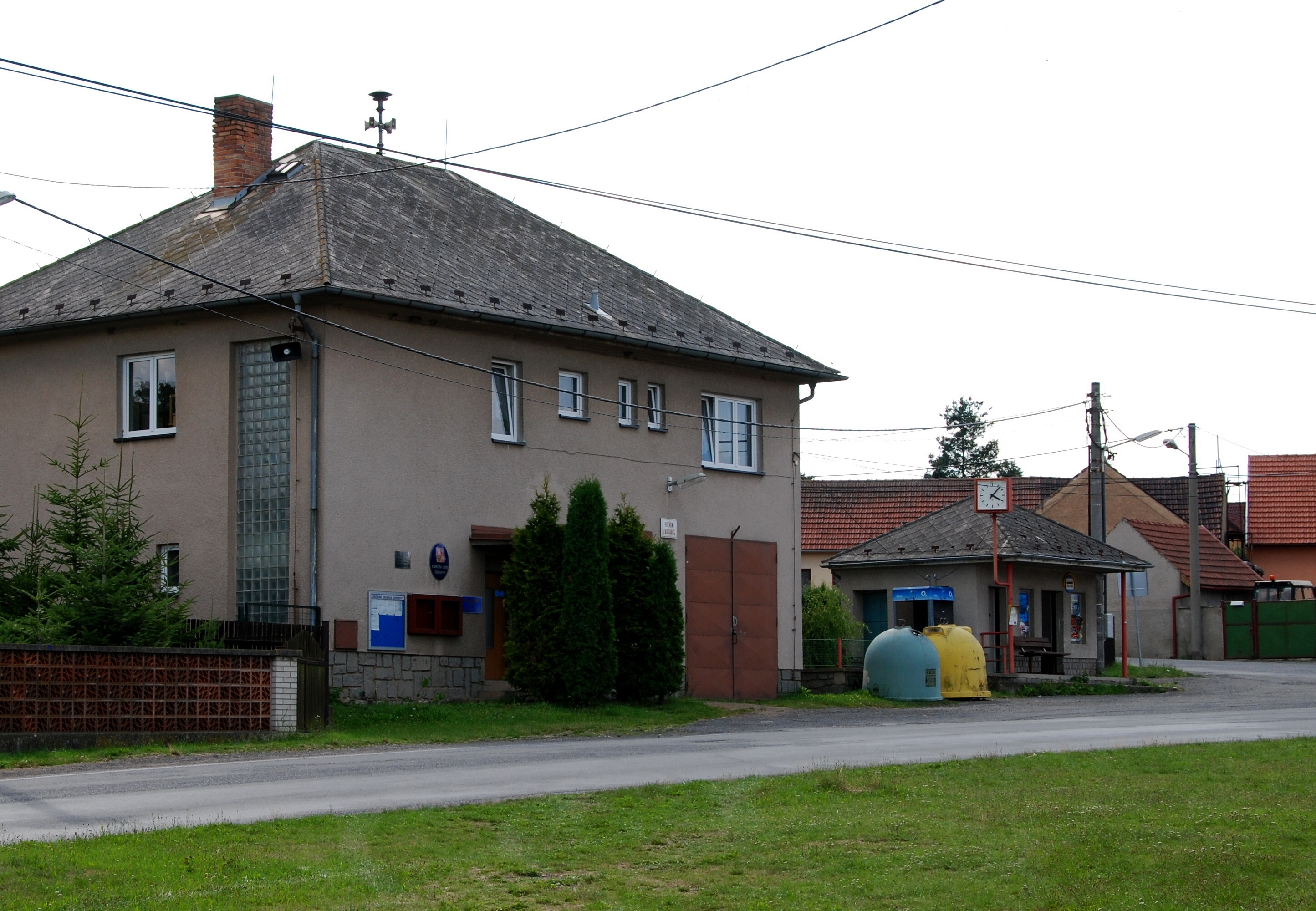 This photograph was taken within the scope of the second year of the 'Czech Municipalities Photographs' grant. Obecní úřad